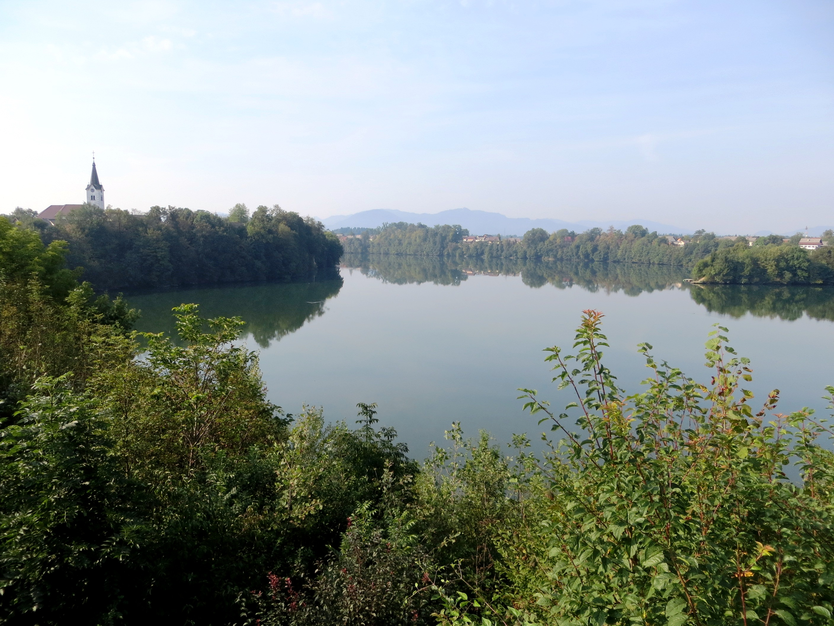 Lake Trboje, Municipality of Šenčur, Slovenia